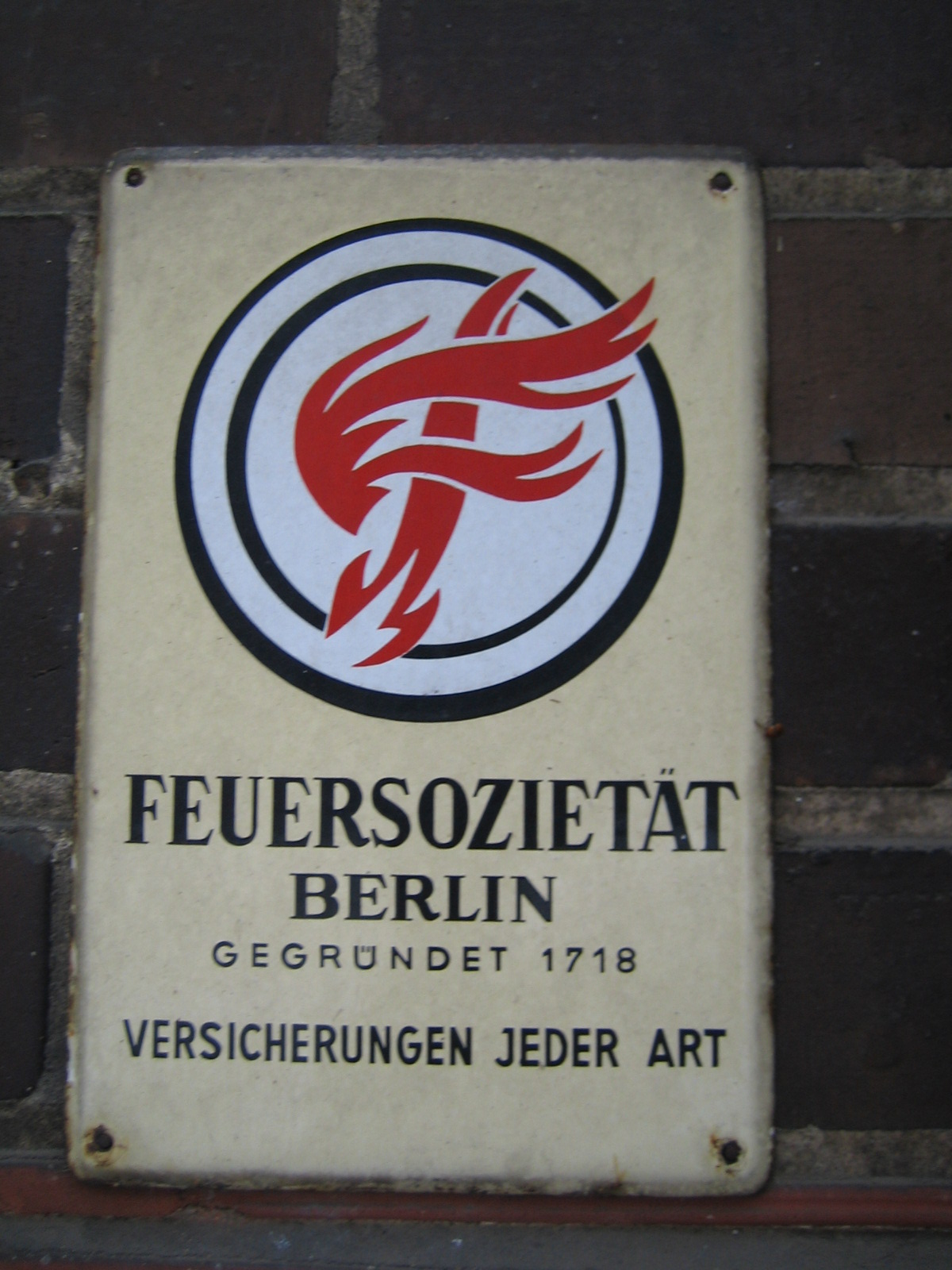 Sign of Feuersozietät